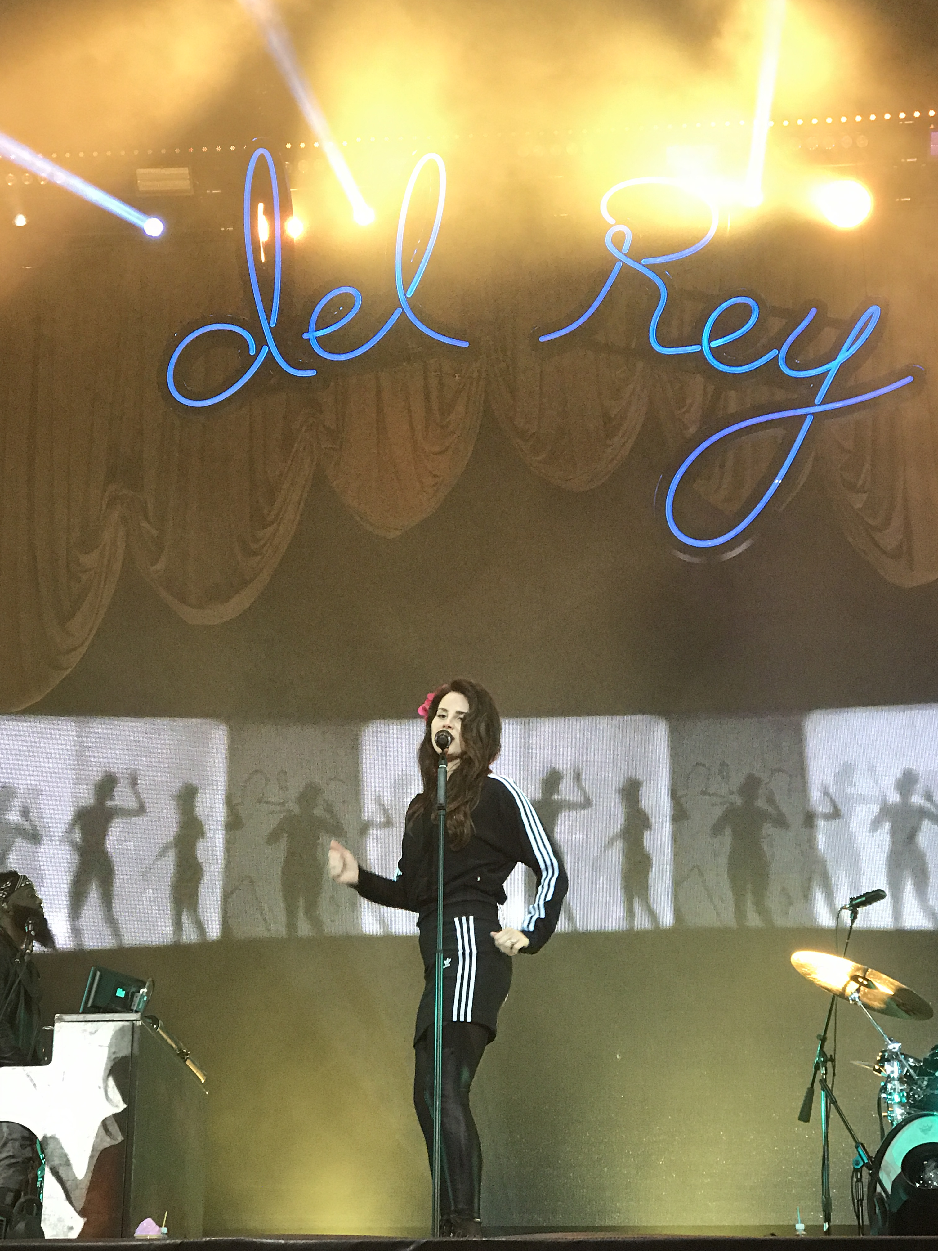 Lana Del Rey performing during the Flow Festival 2017 (Helsinki, Finland).